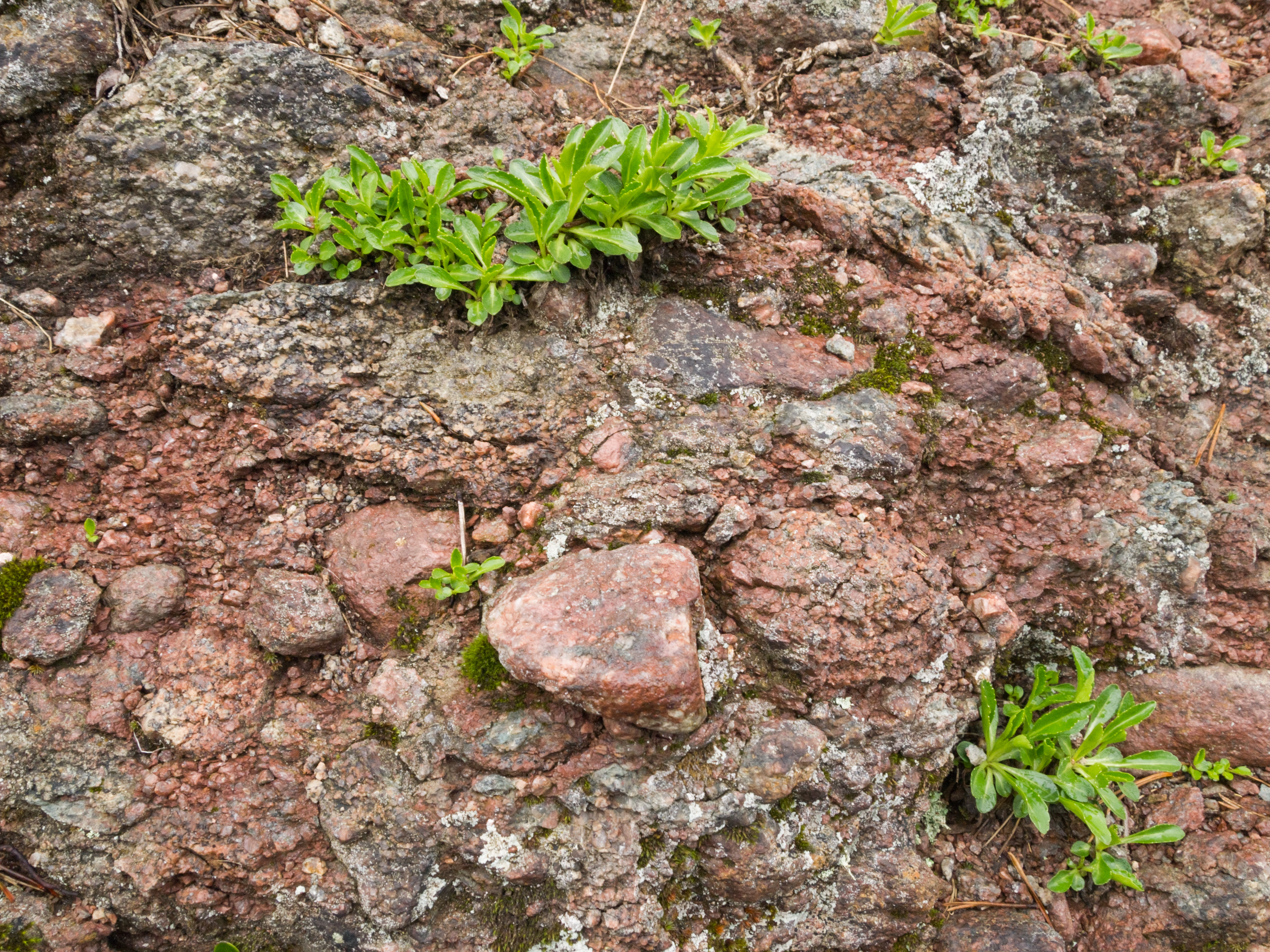 Koperszady conglomerate – a Permian Verrucano type conglomerate in the High Tatra Mountains.